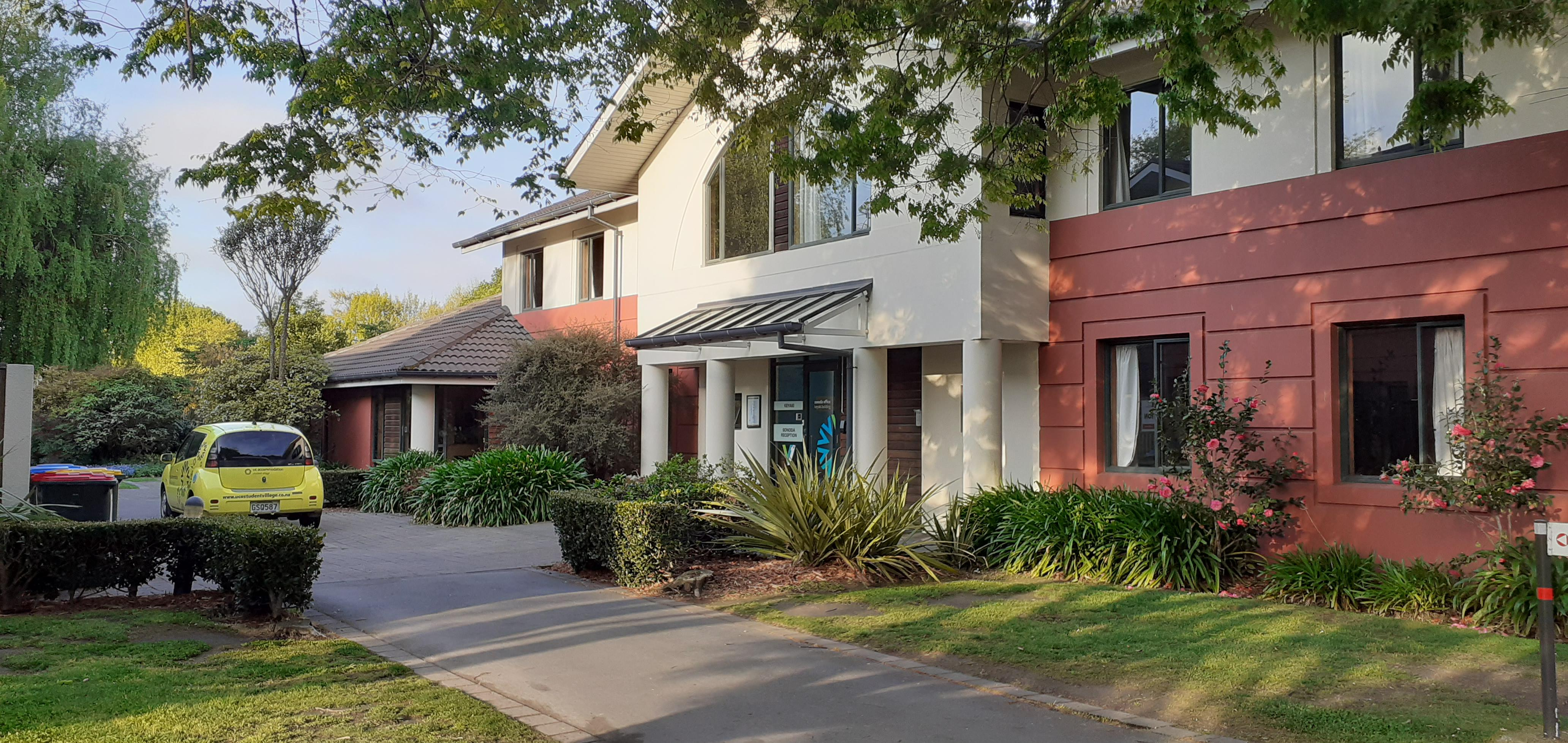 The reception building in the grounds of Sonoda hall, a halls of residence at the University of Canterbury, then operated by Campus Living Villages.